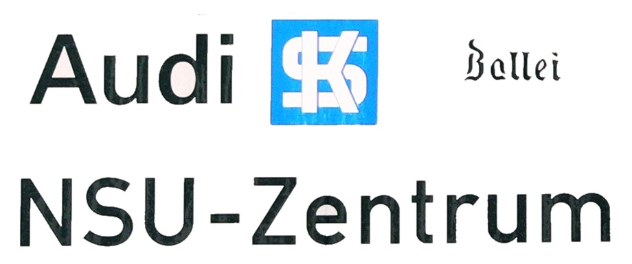 NSU as synonym for the name of the town Neckarsulm (NeckarSUlm)